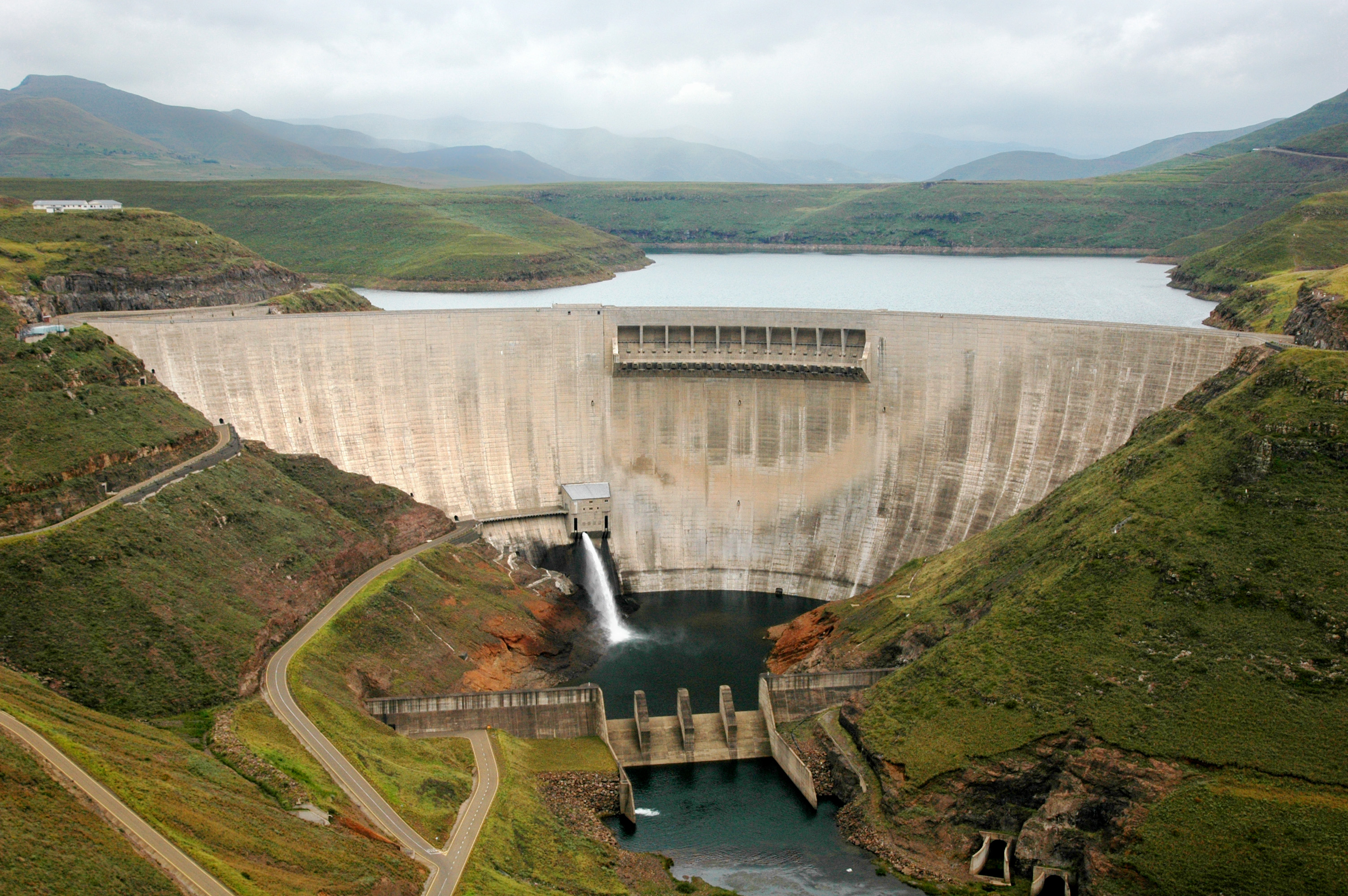 Katse Dam in Lesotho, Africa March 2006